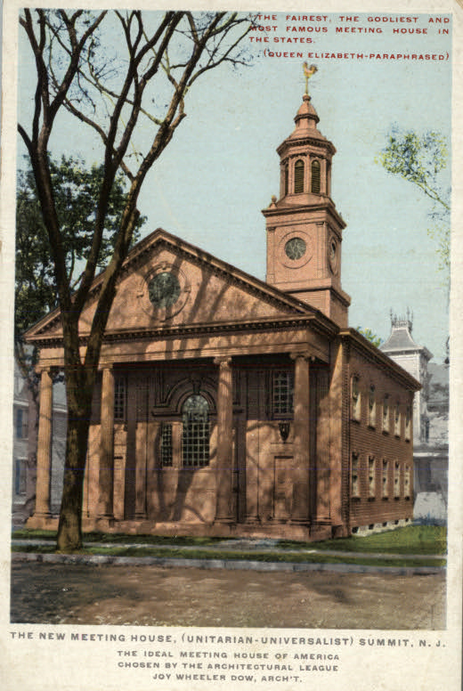 Postcard of the Unitarian Church circa 1913. Text on the postcard reads: The New Meeting House, (Unitarian Universalist) Summit, N.J. -- The ideal meeting house of America -- chosen by the Architectural League -- Joy Wheeler Dow, Arch't